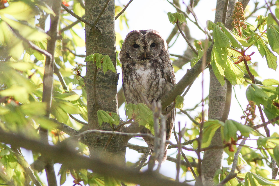 Tawny Owl Strix aluco, Beltout, Beachy Head, Sussex, UK